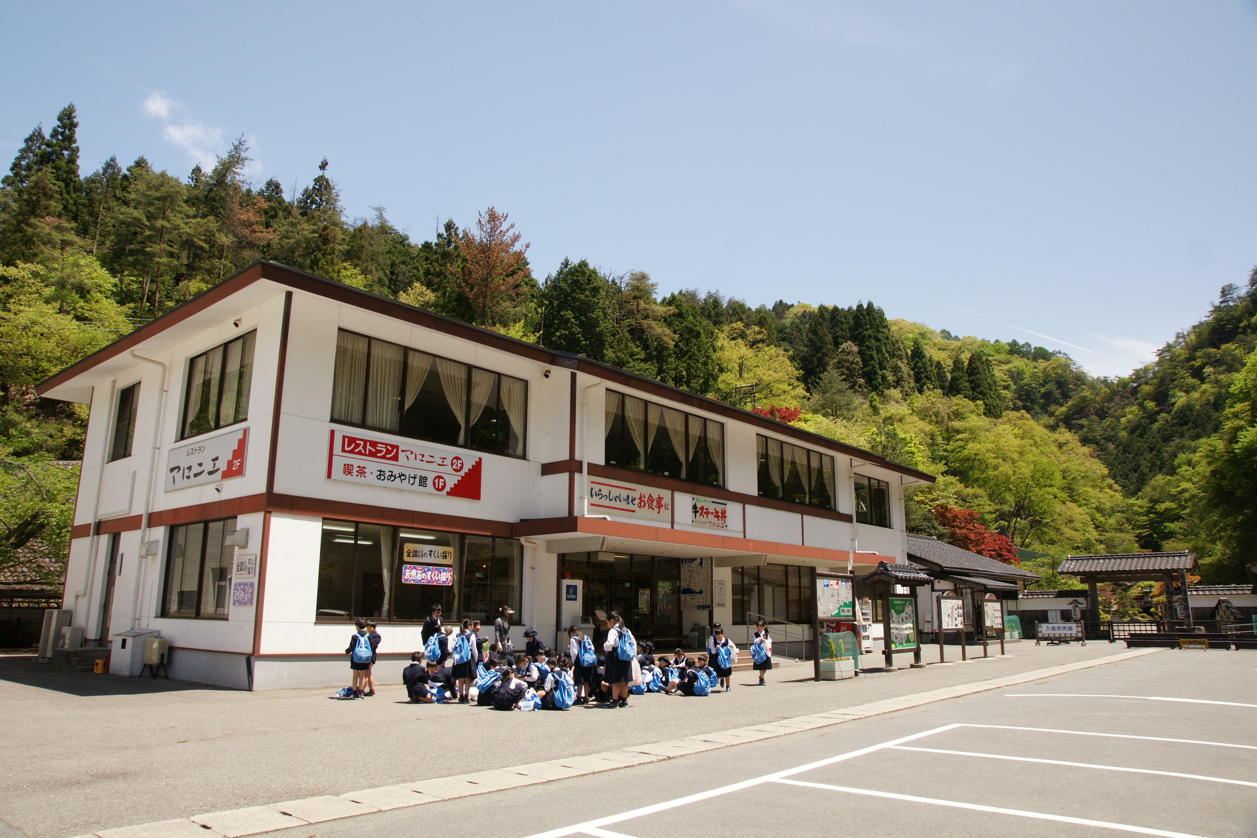 Ikuno Ginzan Silver Mine in Ikuno, Asago, Hyogo prefecture, Japan.